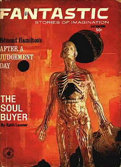 Cover of Fantastic, December 1963